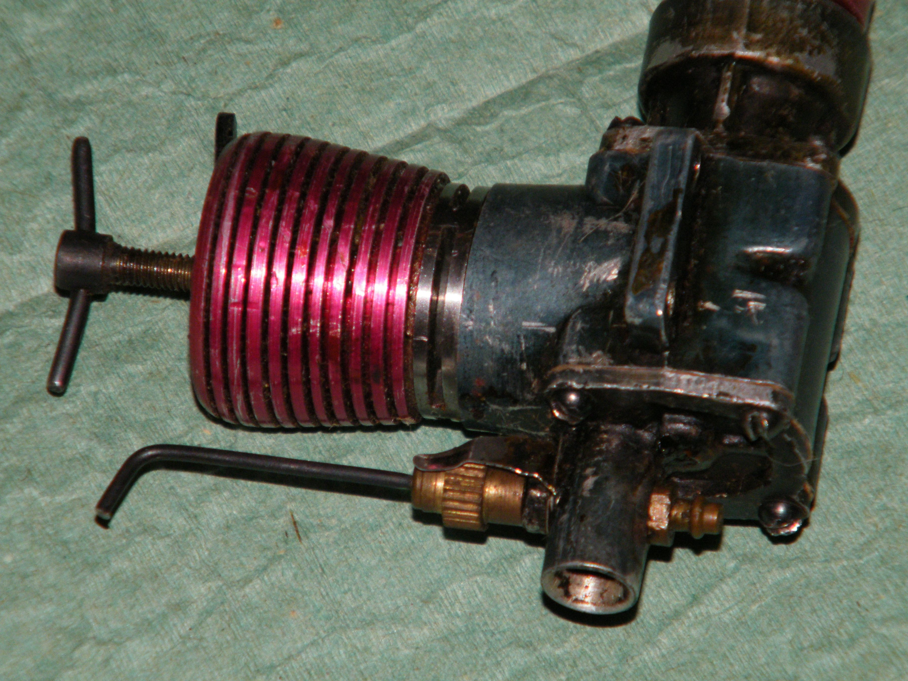 Карбюратор авиамодельного двигателя МК12В